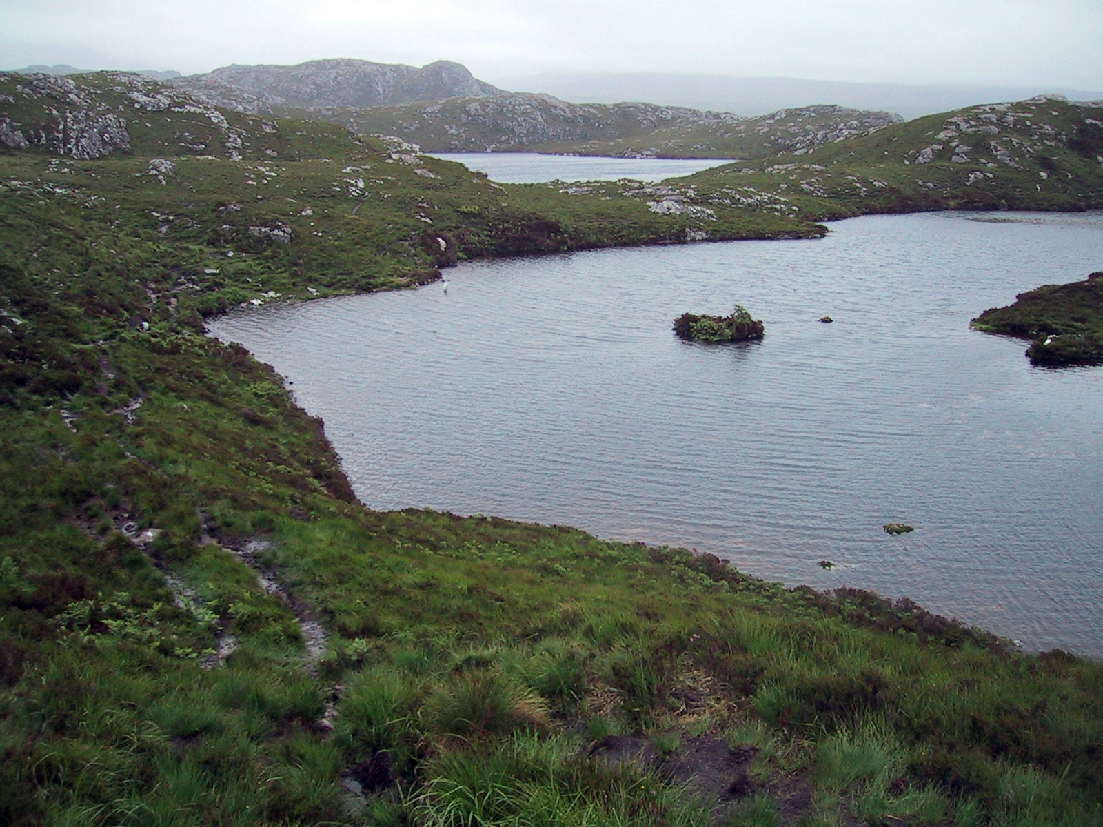 Fairy Lochs, Scotland